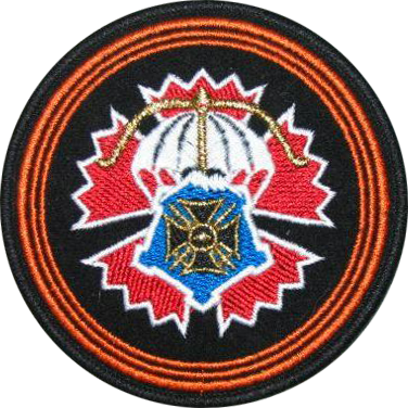 Russian 22nd Separate Guards Special Purpose Brigade